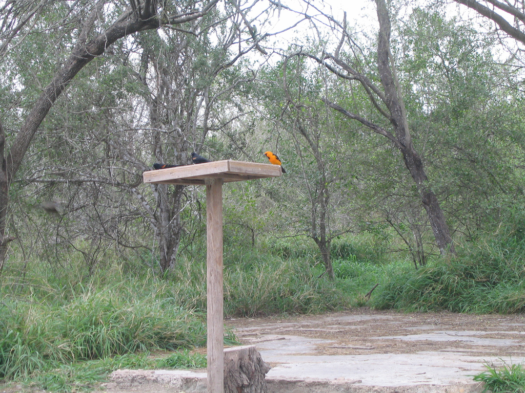 An Altamira orile in Bentsen-Rio Grande Valley State Park, Texas.